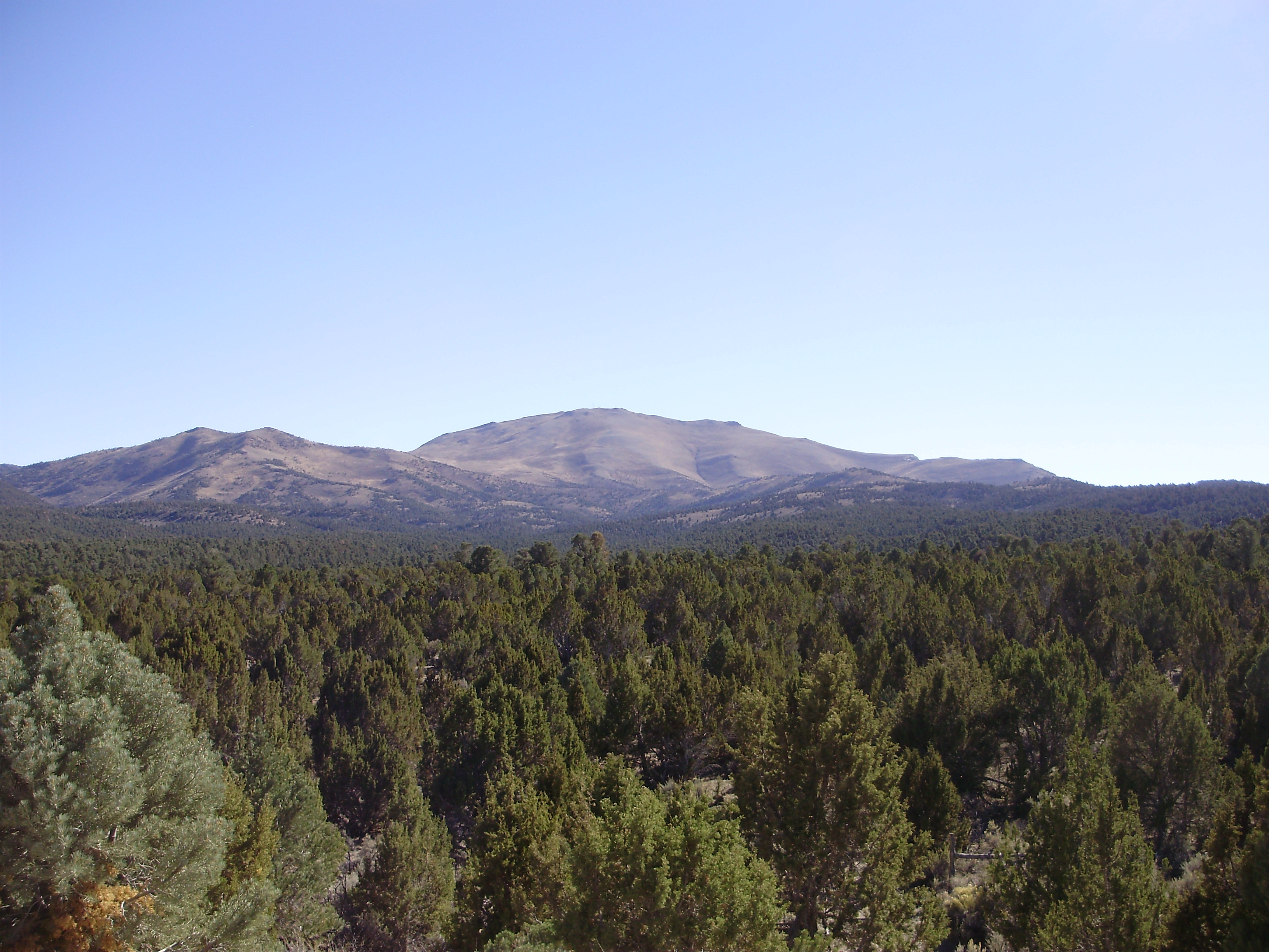 View south towards Big Bald Mountain from White Pine County Route 6 ascending Overland Pass from the east